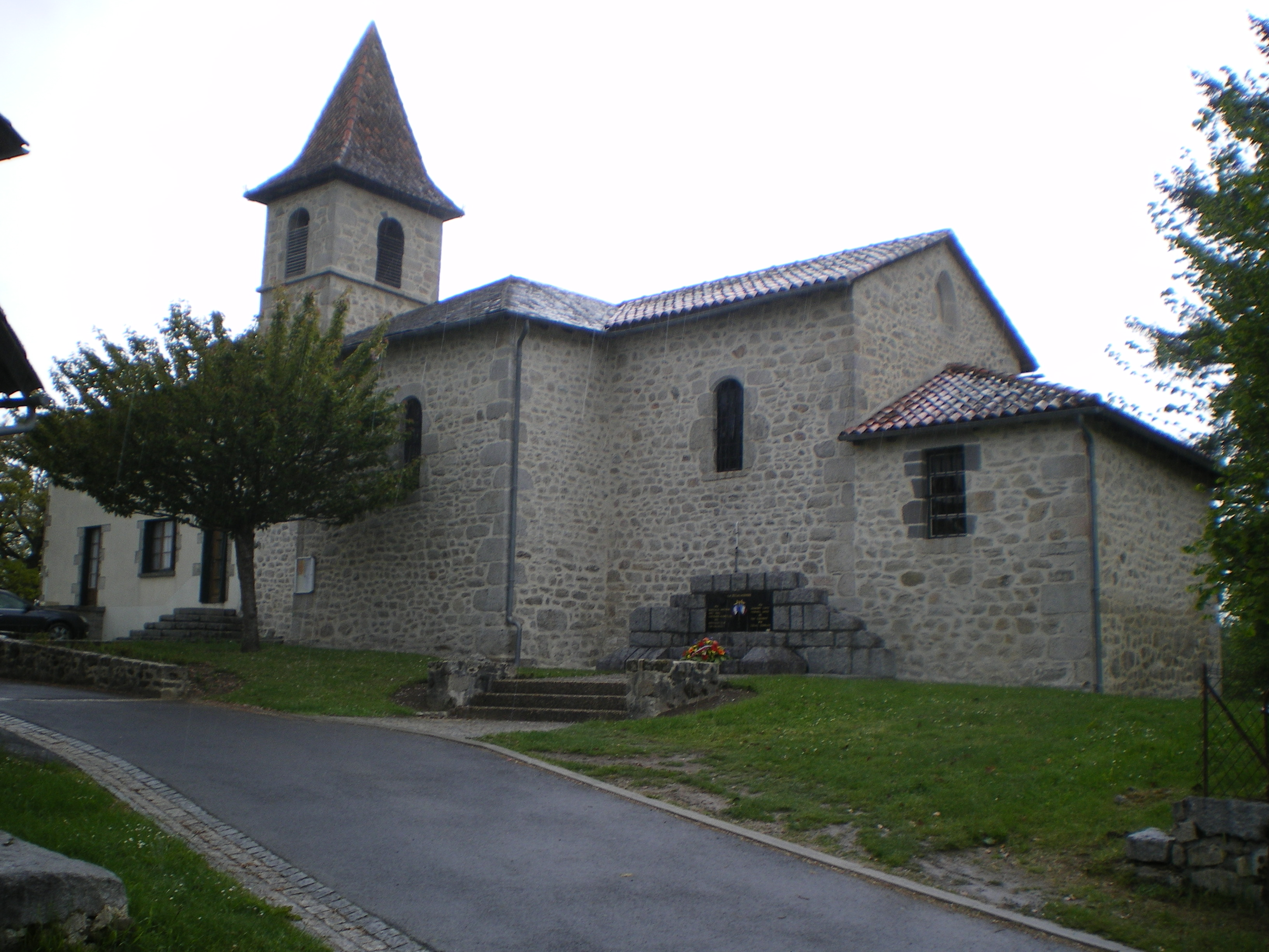 La Ségalassière church, Cantal, France